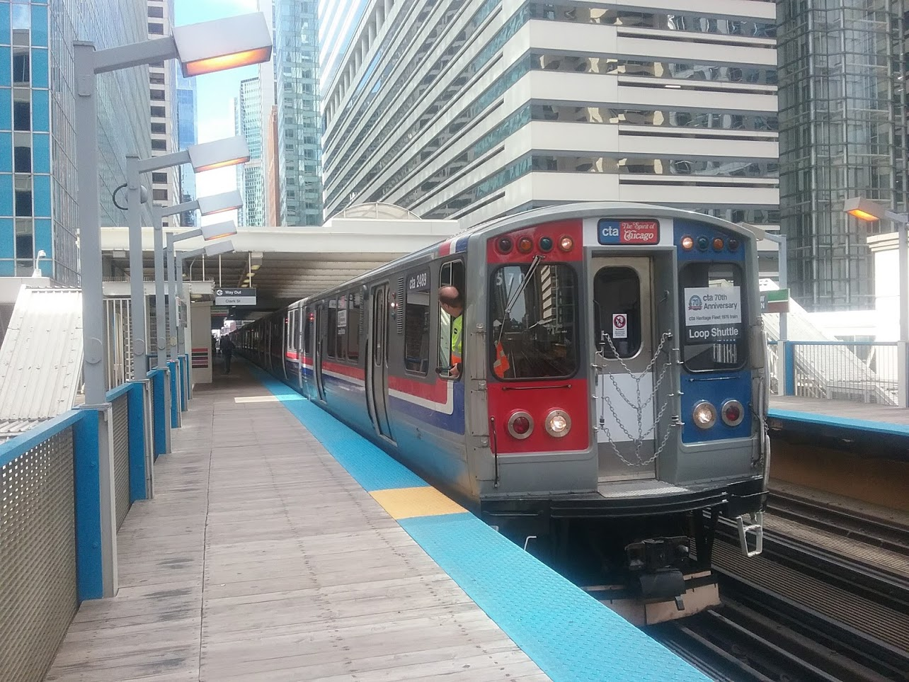 The CTA 2400 series cars